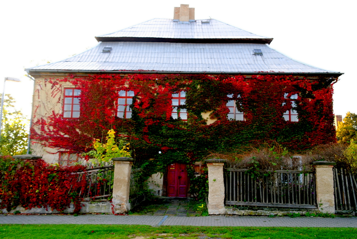 Rectory, Charvatce 1, Charvatce (Martiněves).